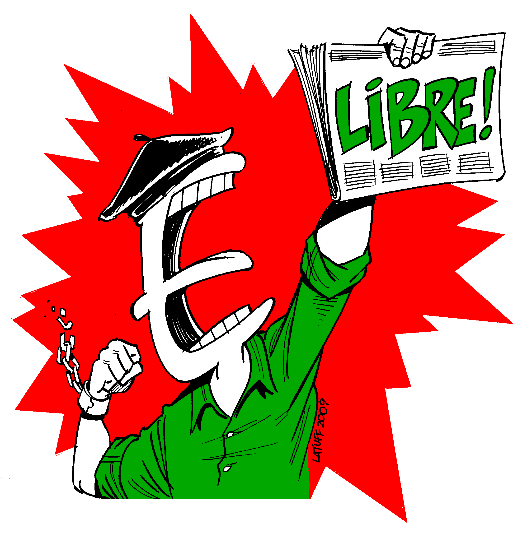 Cartoon against the illegal closure of Basque-language paper Euskaldunon EgunkariaEuskara: Euskaldunon Egunkaria legez kanpo ixtearen kontrako bineta